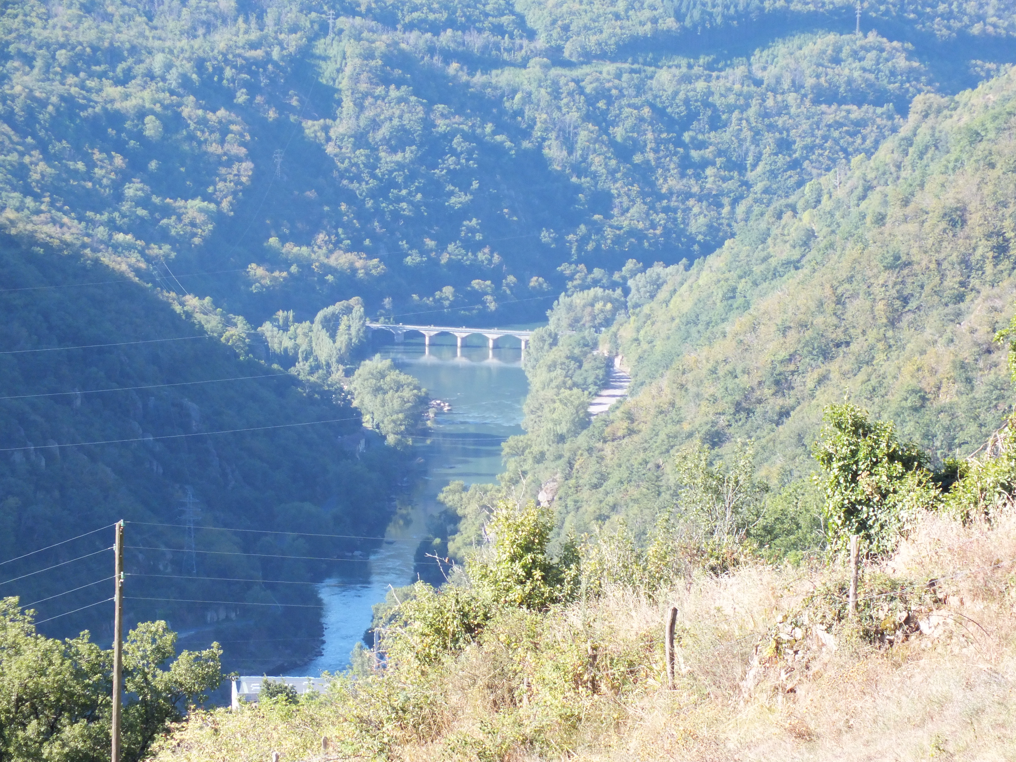 Le Pouget is a power station in the commune of Le Truel. The hamlet of Le Pouget is in the commune of Ayssènes in southern Aveyron, in the Raspes de Tarn region. It is just upstream of the bridge at Le Truel.